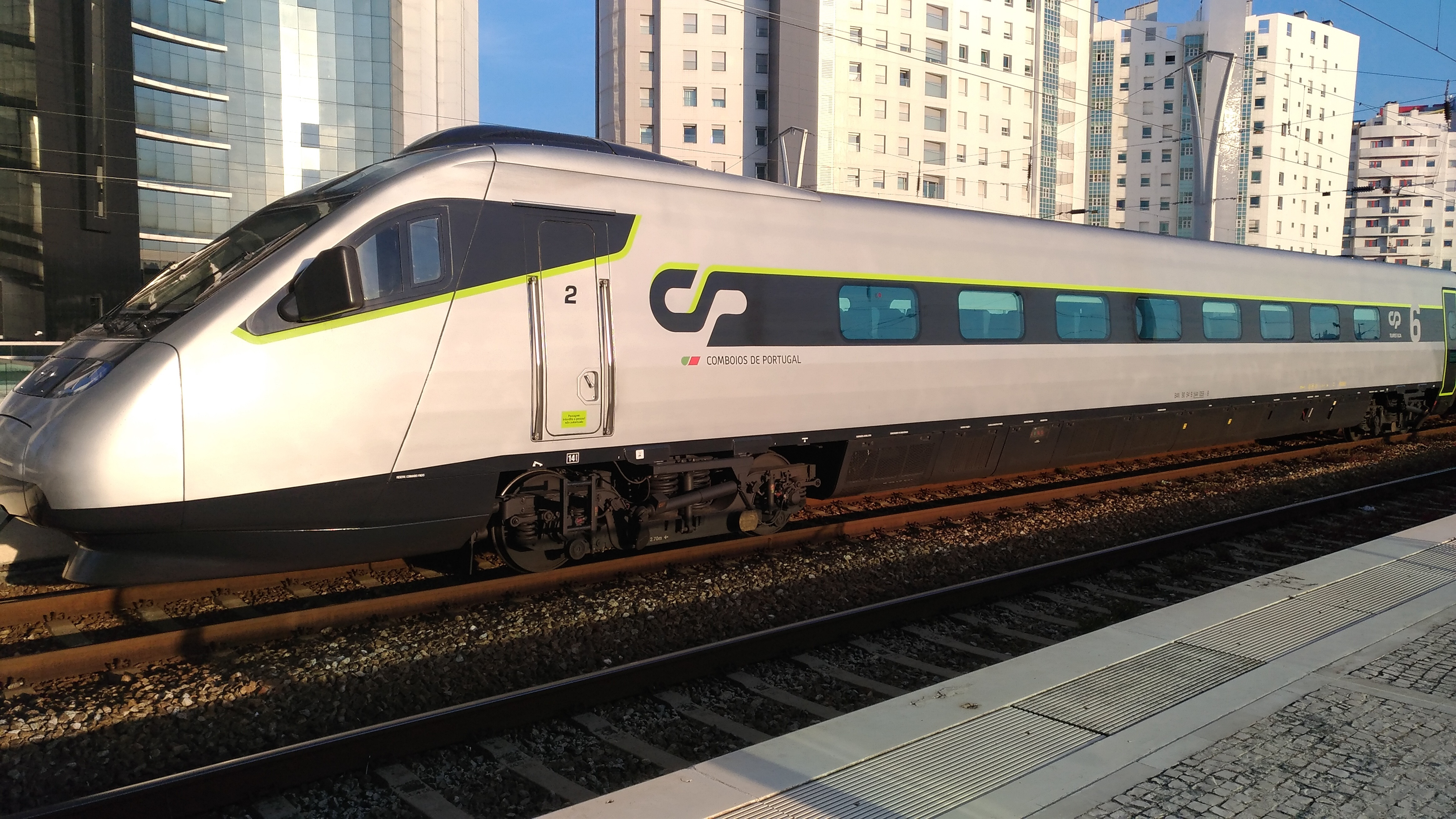 A Portuguese Alfa Pendular train in new livery, following refurbishment in 2017. This tilting train operates routes within Portugal.